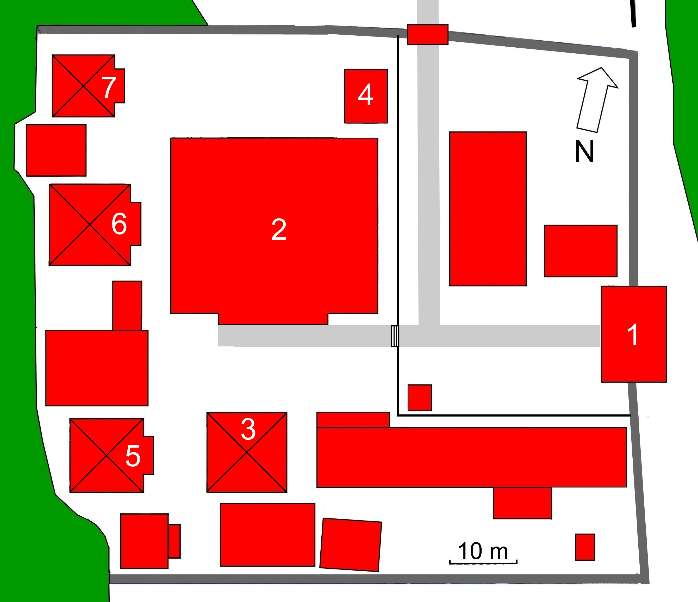 Layout of Amanosan Kongô-ji at Kawachinagano, Osaka prefecture, Japan